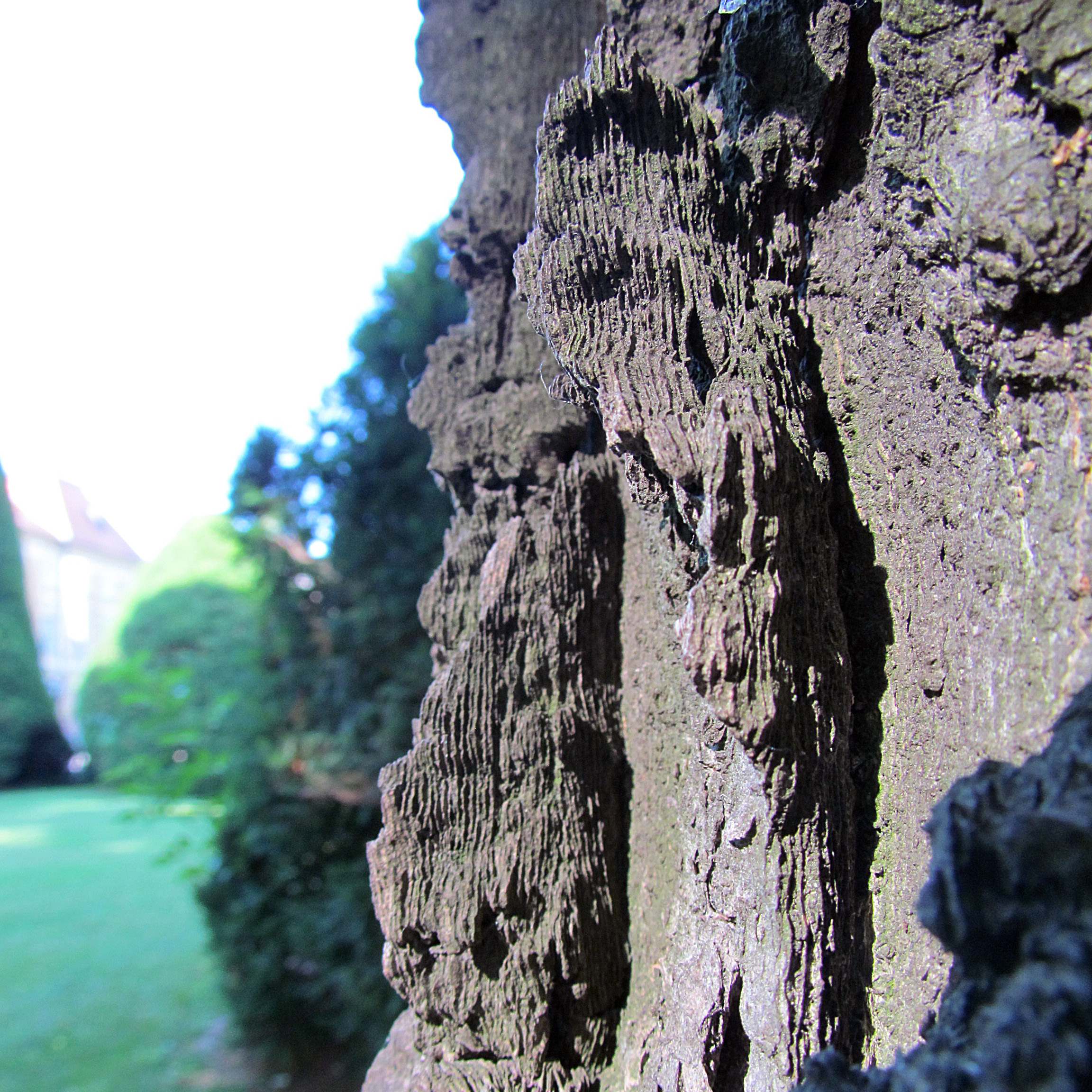 Bark of Celtis occidentalis